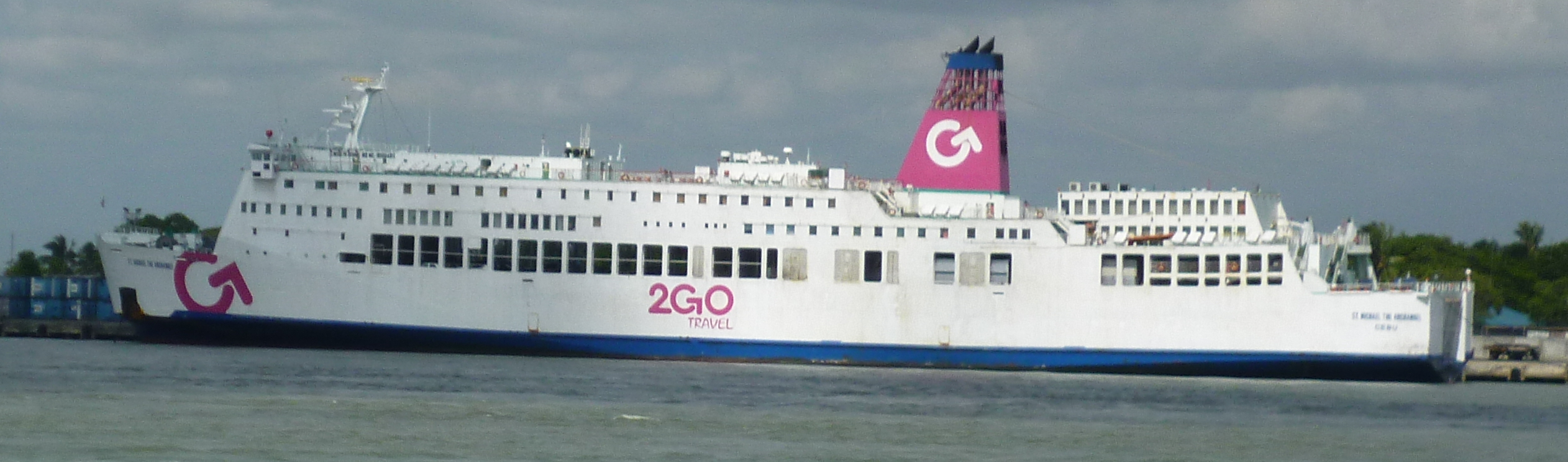 2GO Travel ferry Iloilo City